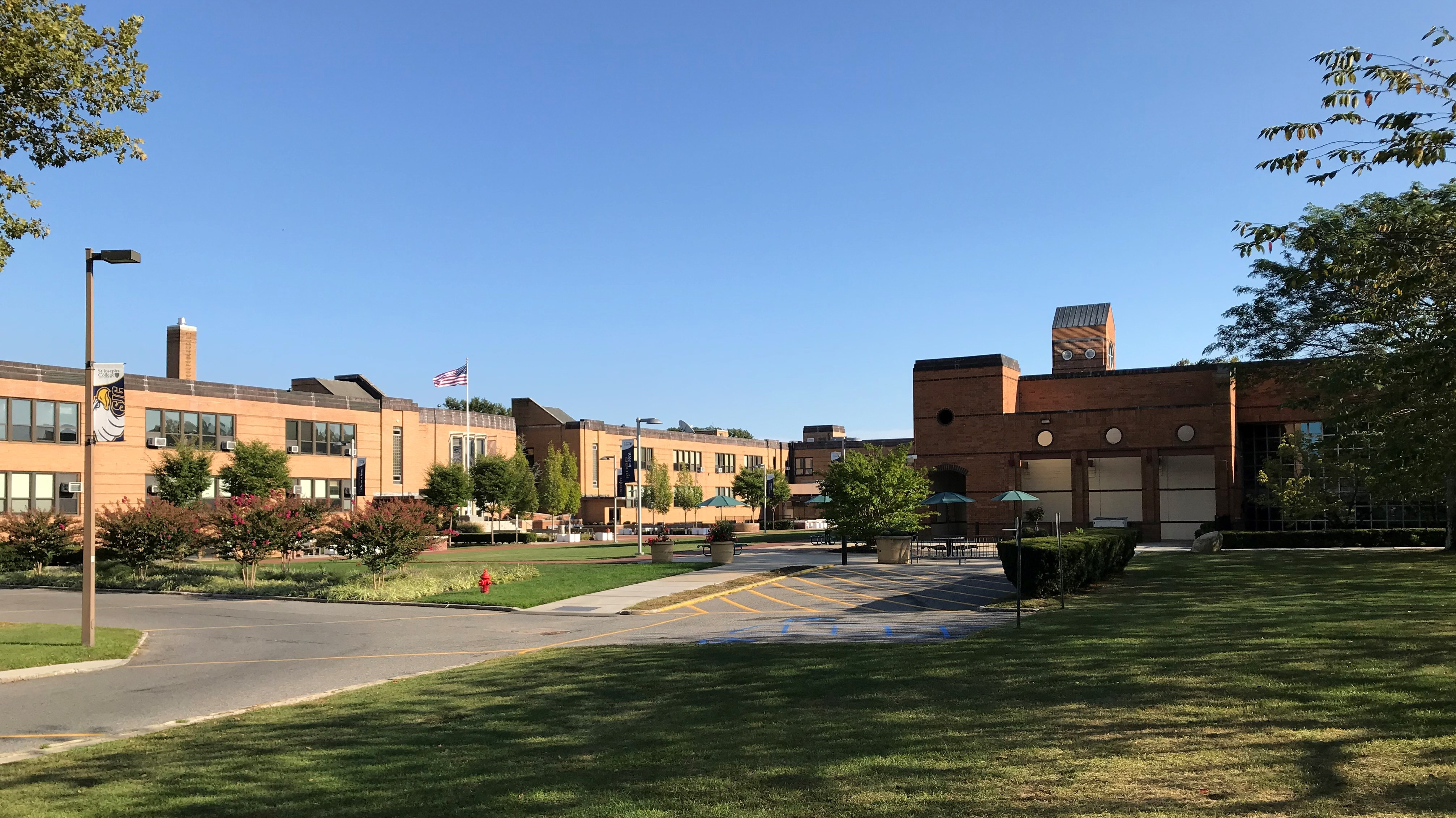 This is a photo of St Joseph's College Campus in Patchogue, New York. On the left is O'Connor Hall, on the right is the Callahan Library.